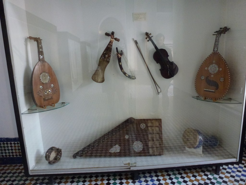 Andalusian musical instruments at a museum in Fez